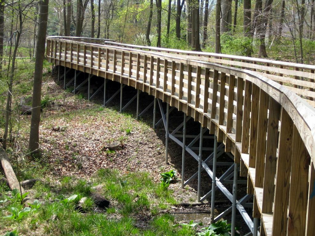 Raised boardwalk